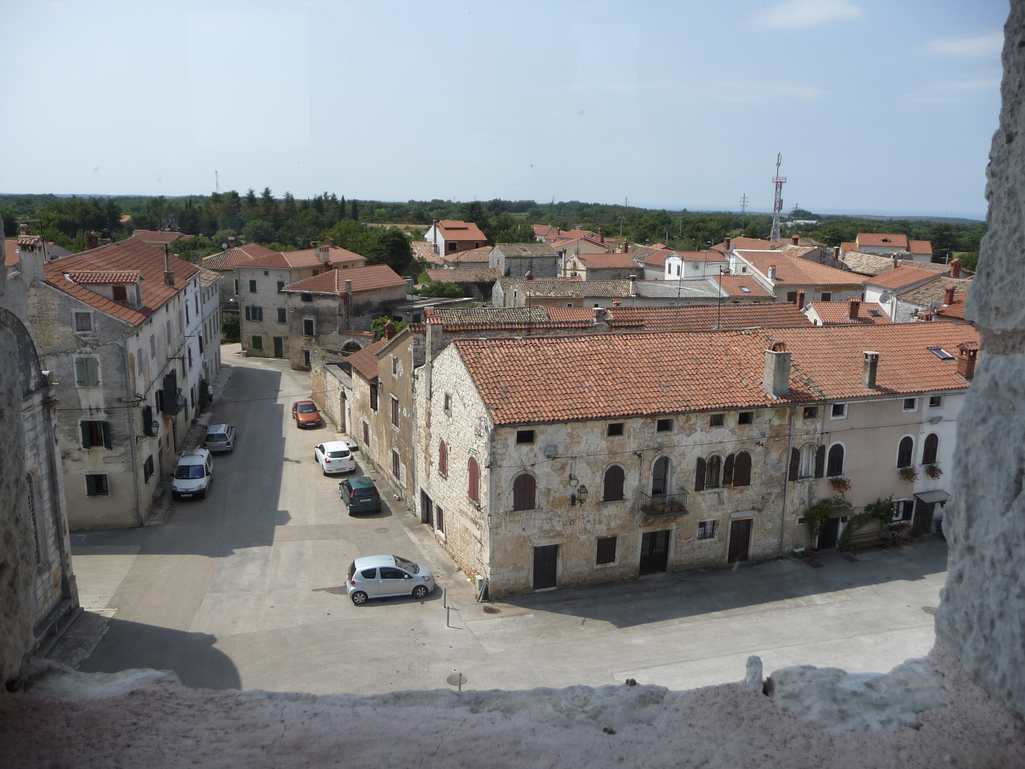 Svetvinčenat (San Vincenzo), Histria, Croatia.